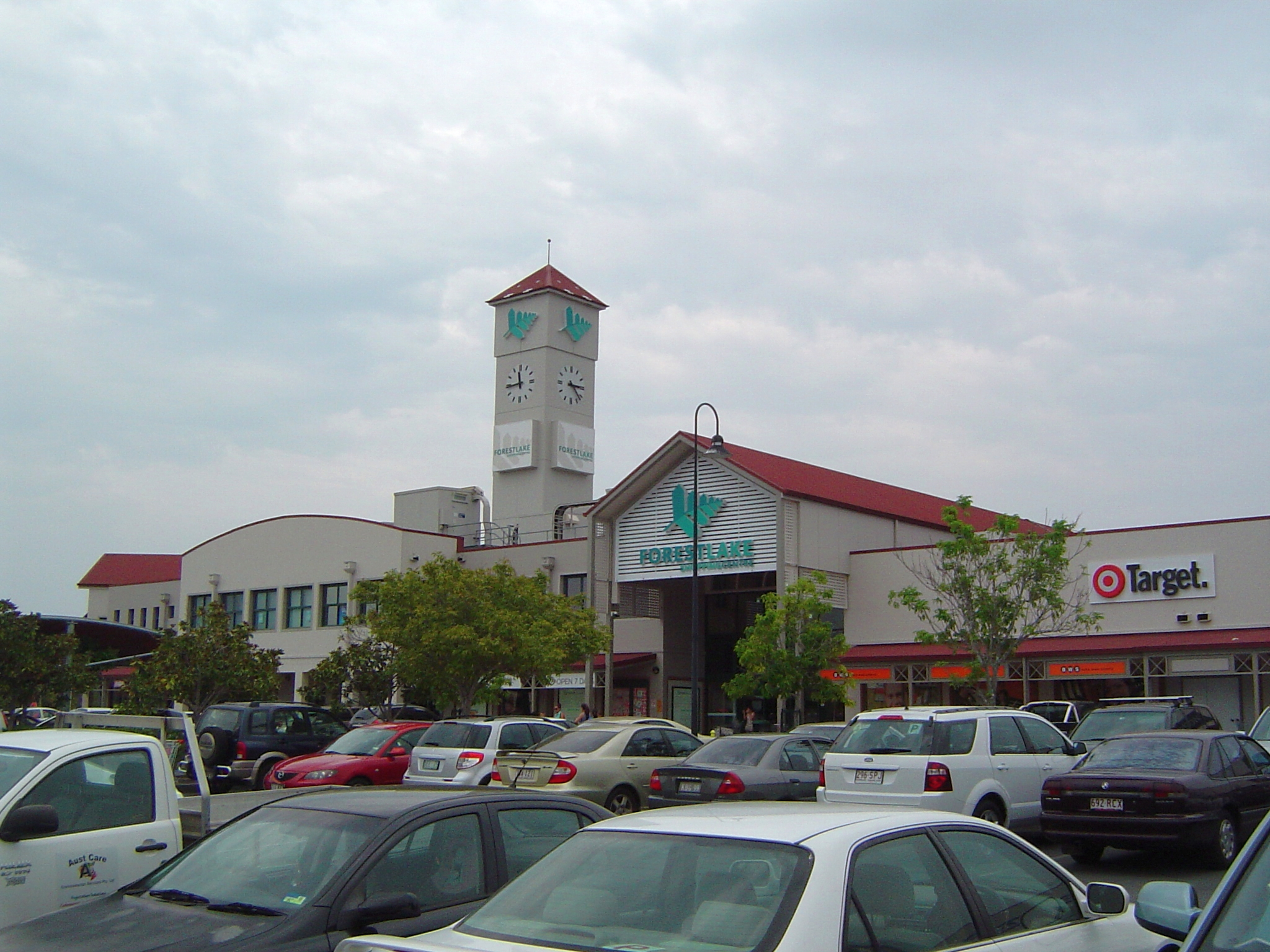 Photo of entrance and carpark at Forest Lake Shopping Centre in Forest Lake, Brisbane, Queensland, Australia